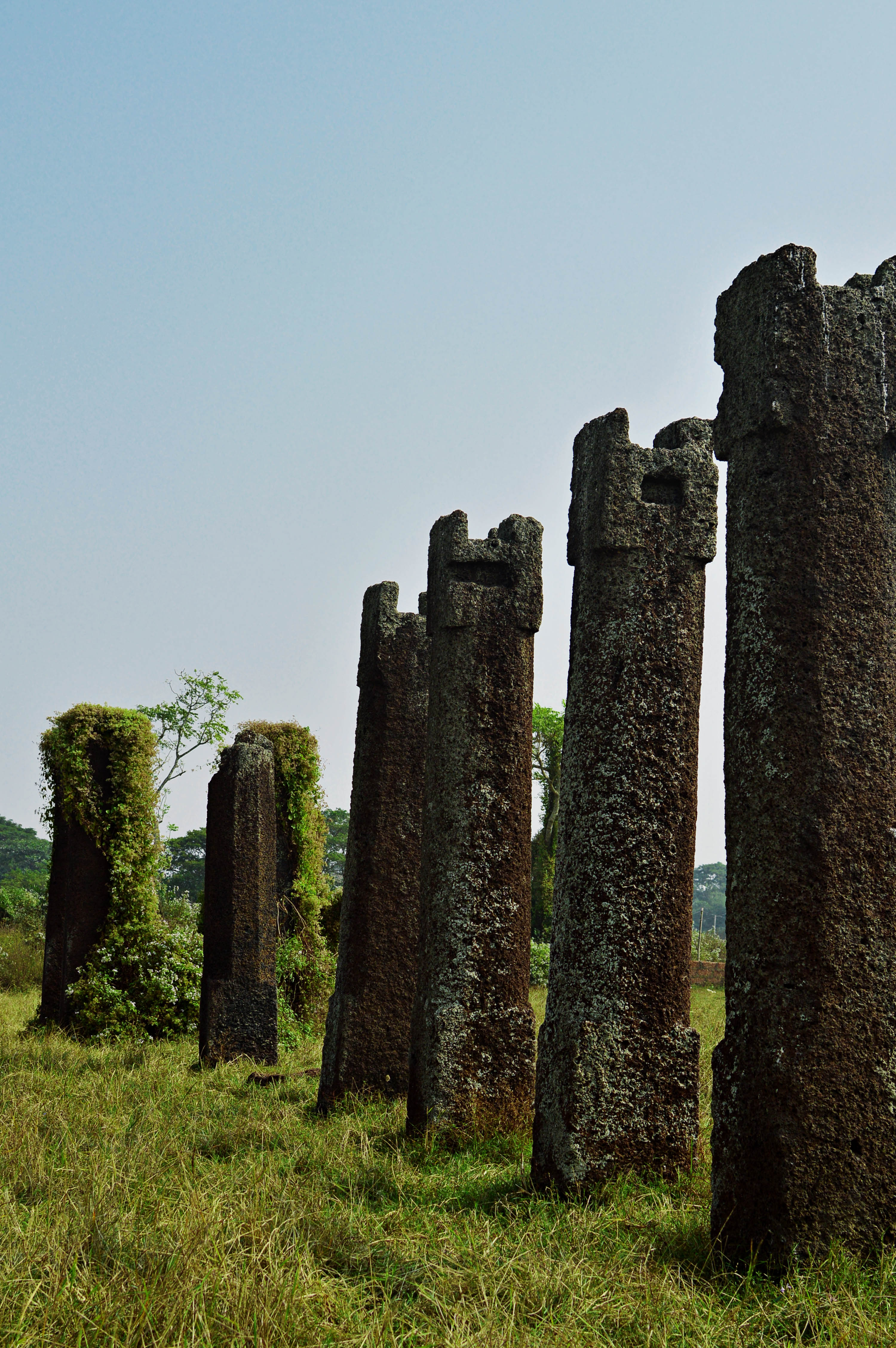 1,200 BC structure stii standing in sisupalgarh